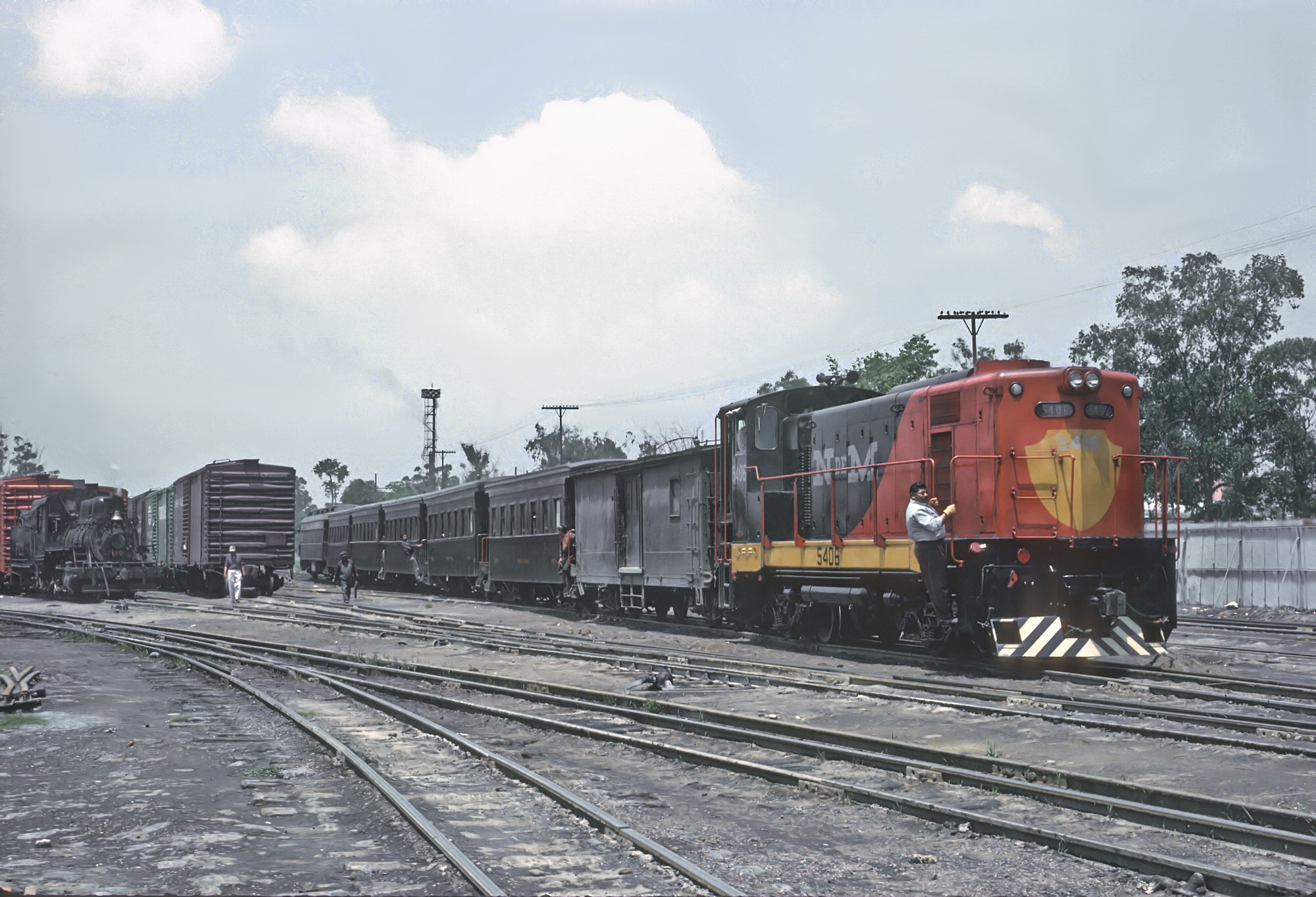 Narrow Gauge Train 128 going through San Lazaro yards. F.C.I. (Ferrocarriles Interoceanico) 2-6-0 #60 at extreme left. Taken in Mexico City, D.F. Mexico on September 13, 1966.